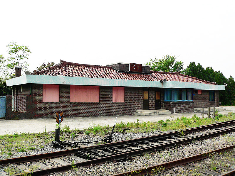 KORAIL Okma Station